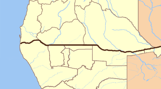 Blank map of Angola and Namibia, divided into provinces. You can see the border as a darkened line on the image.